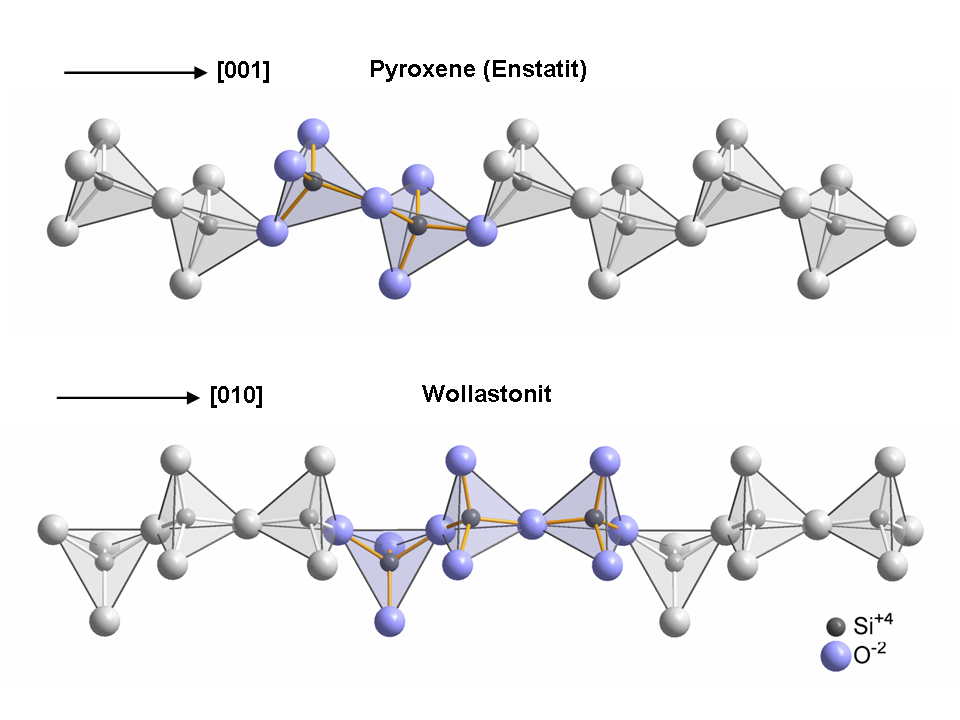 Silicate chains in Pyroxenes compared to Wollastonite (Silkatkette in Pyroxenen verglichen mit Wollastonit)